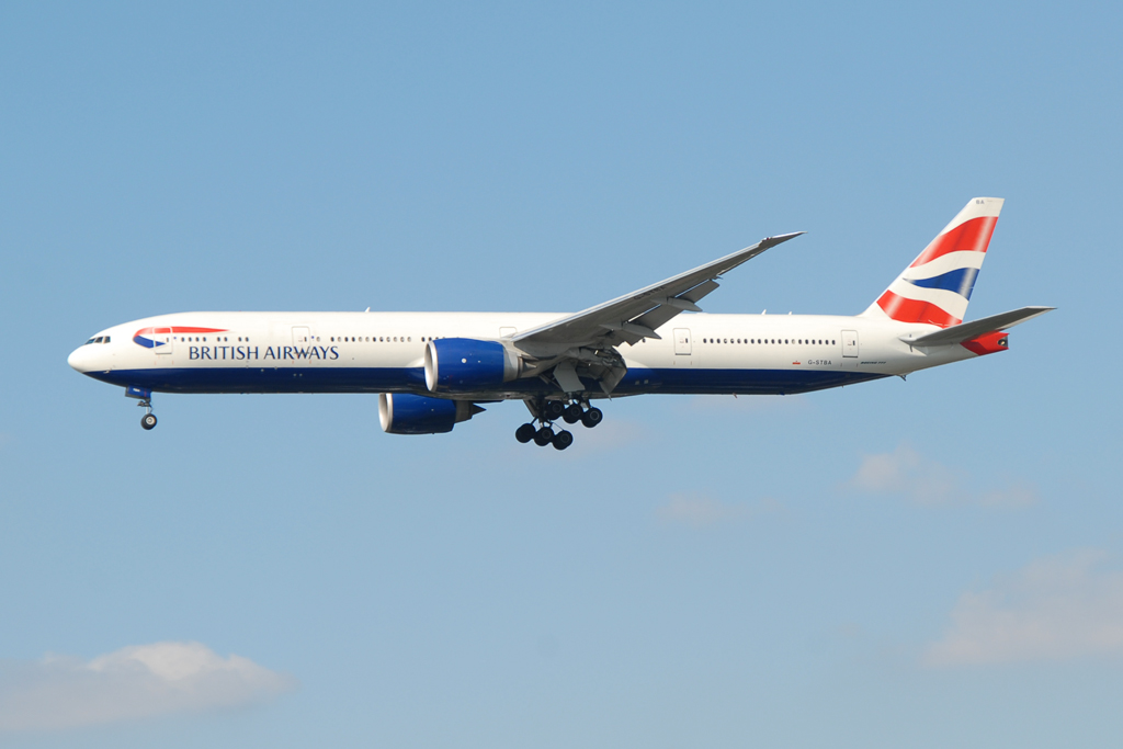 G-STBA British Airways Boeing 777-336ER msn 40542/879 seen on short finals for 27L at London Heathrow (LHR/EGLL).